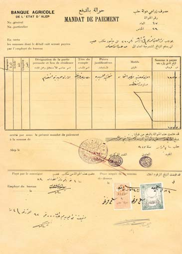 A payment order issued from a government bank in the State of Aleppo to a local newspaper